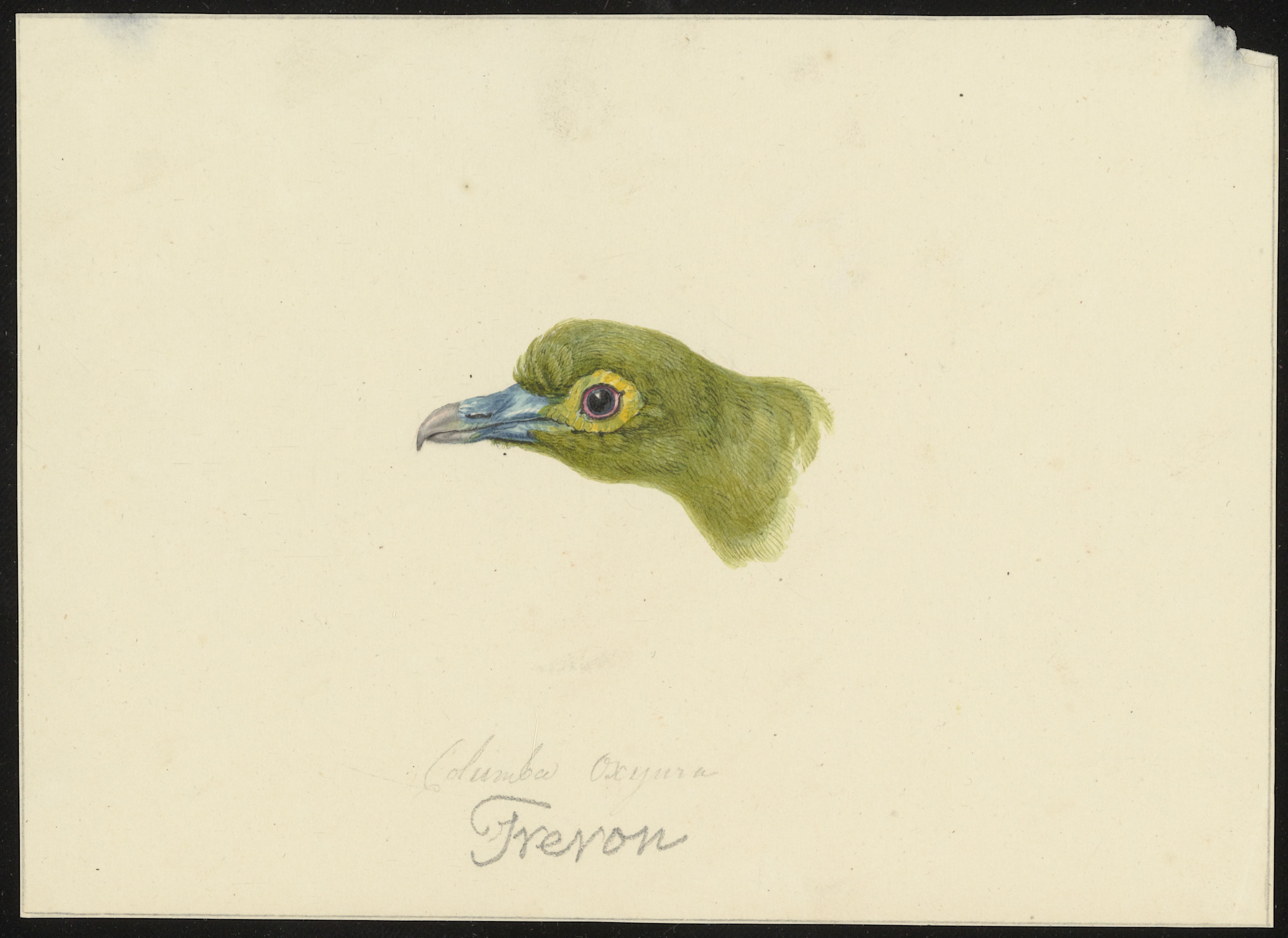 bird's head